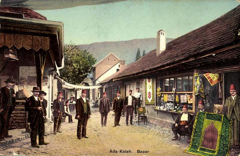 Ada Kaleh bazarTürkçe: Adakale pazarı